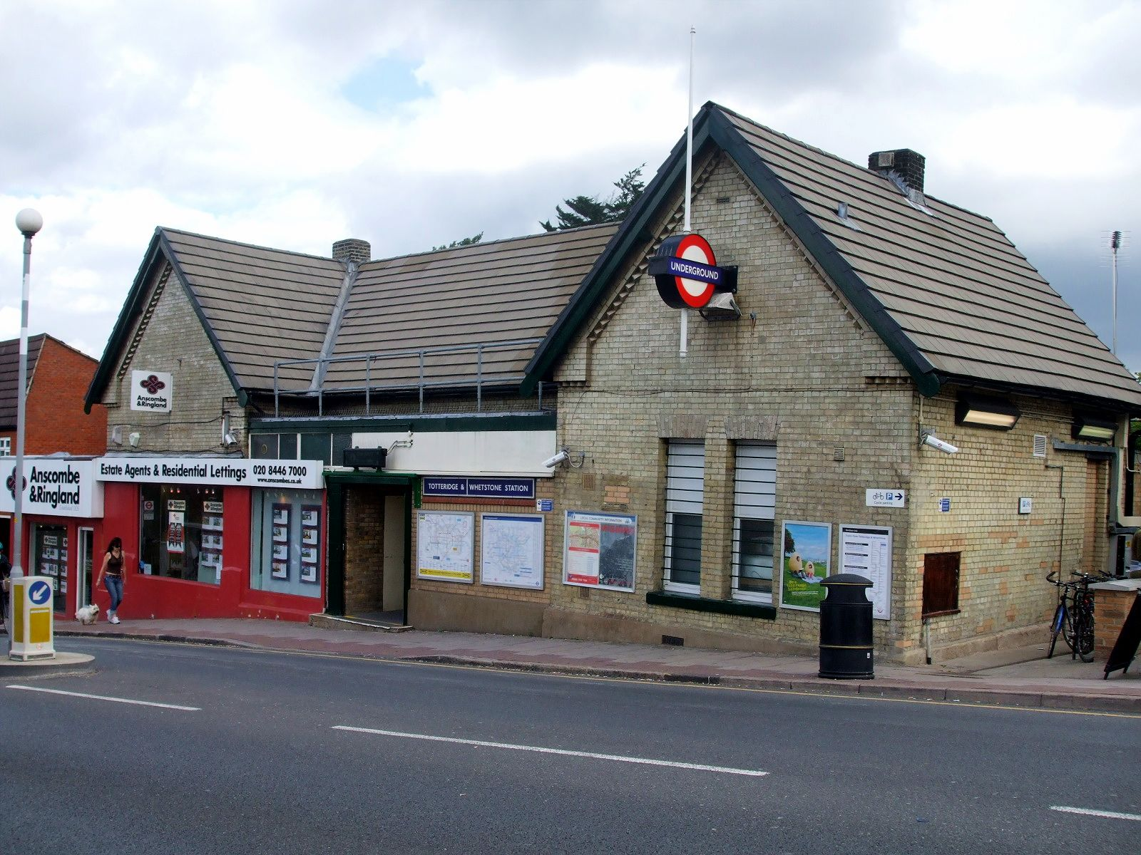 Totteridge & Whetstone tube station building